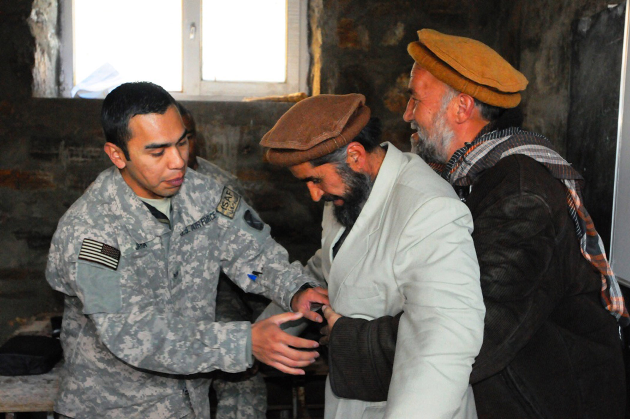 US medic teaches the Heimlich manuever to laughing Afghans in Panjshir Province.